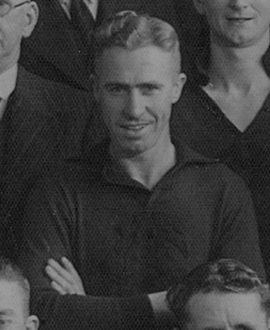 Photo of Ted Hill from 1940-1945